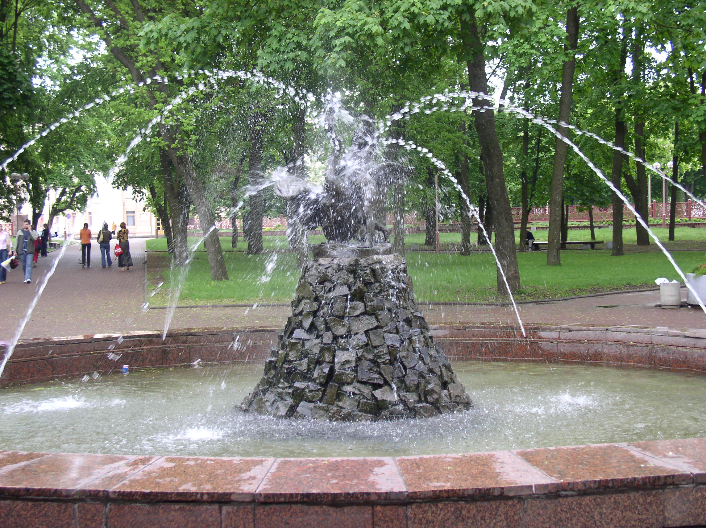 Fountain with sculpture group "Boy playing with a swan", Minsk, Belarus.